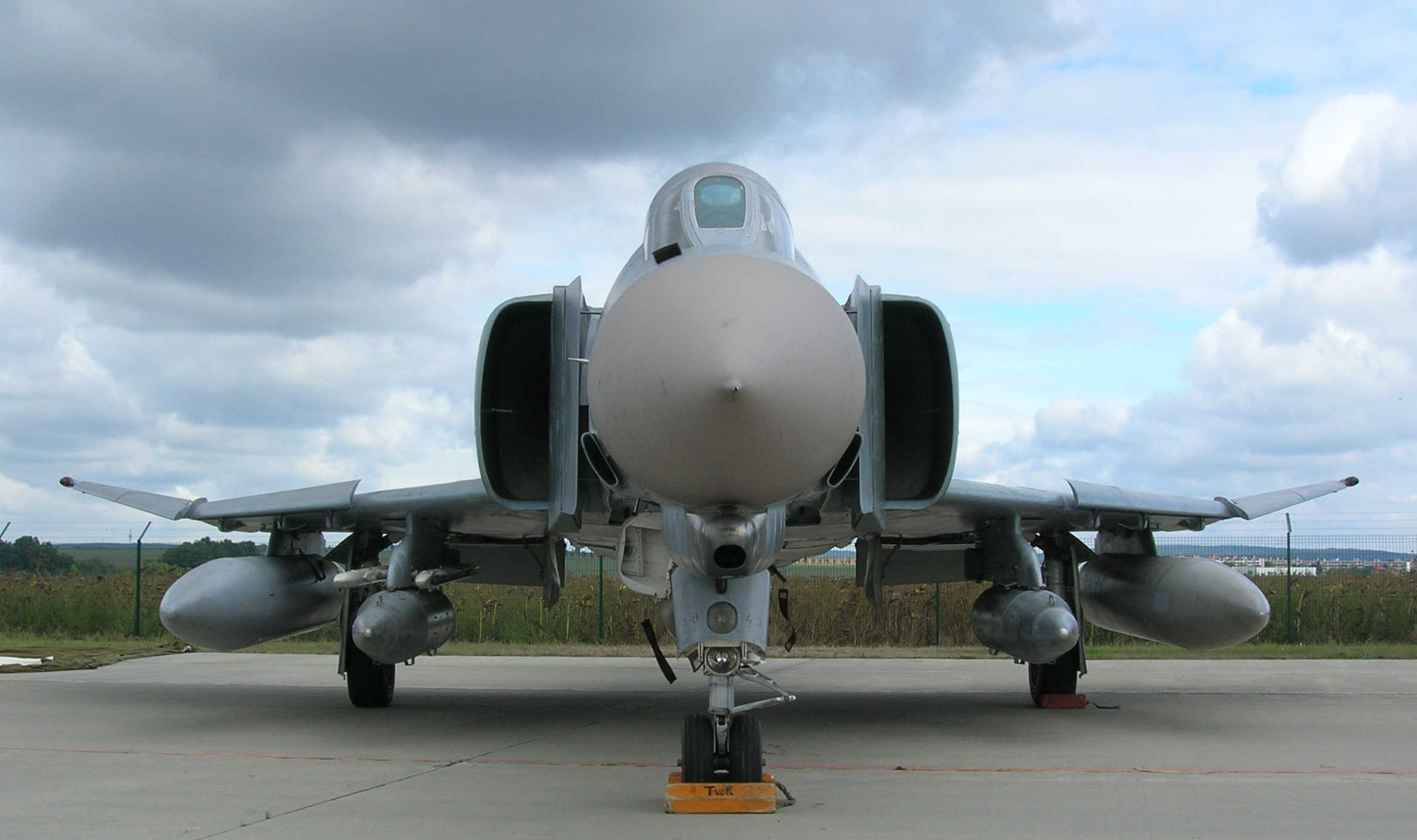 German Luftwaffe F-4F Phantom II (front view). Photo taken in Brno during CIAF 2007.